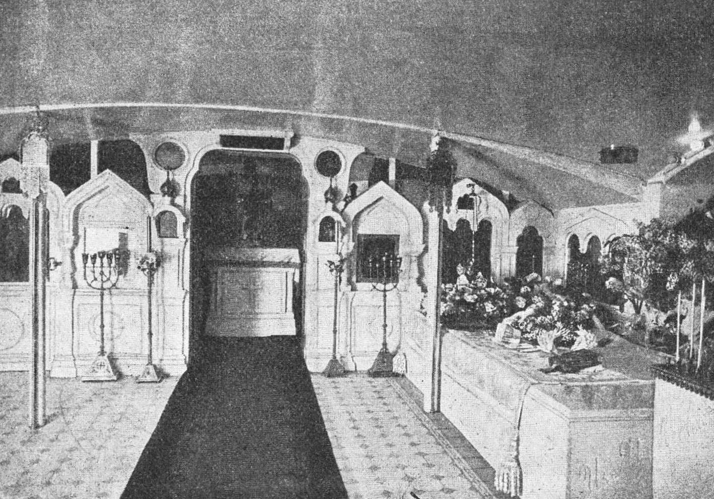 Tomb of Saint John of Kronstadt